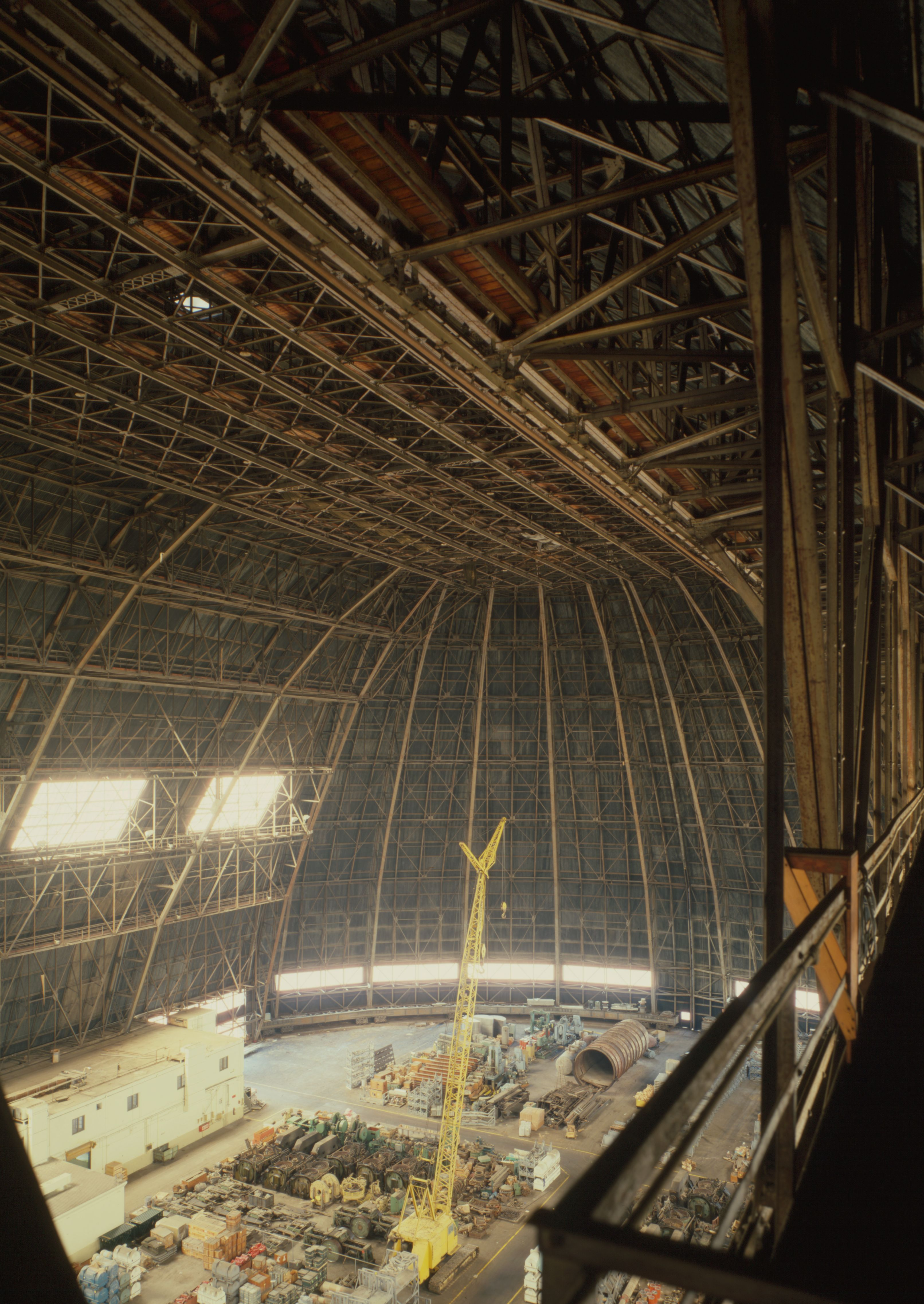 Goodyear Airdock, 1210 Massillon Road, Akron, Summit County, OH